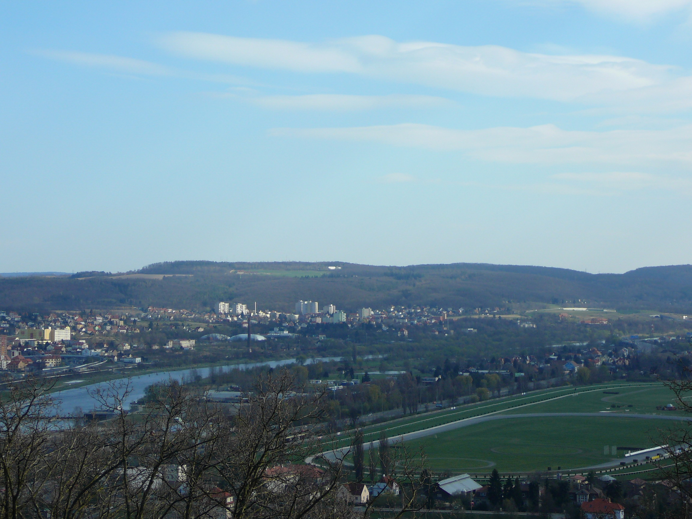 A view of the Čihadlo hill (386 m.), Vltava river and Prague - Komořany from a vantage point near the church of Saint John of Nepomuk in Chuchle, Prague, the Czech Republic.